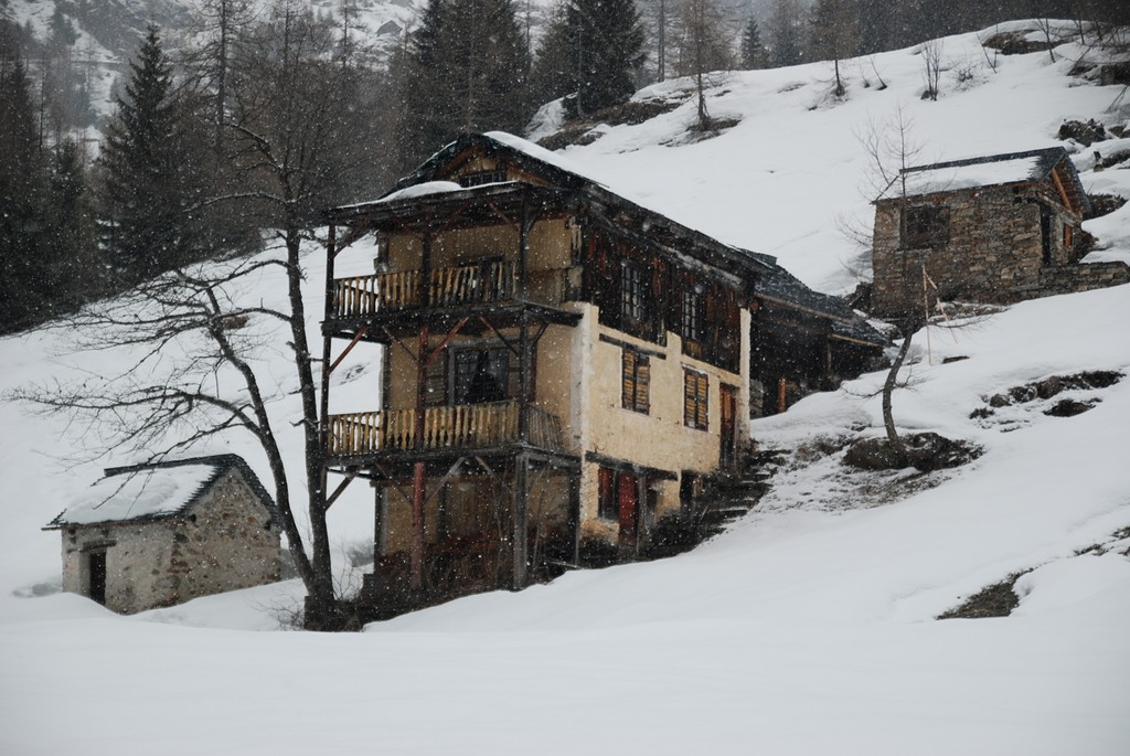 House in Fusio village, Ticino, Switzerland